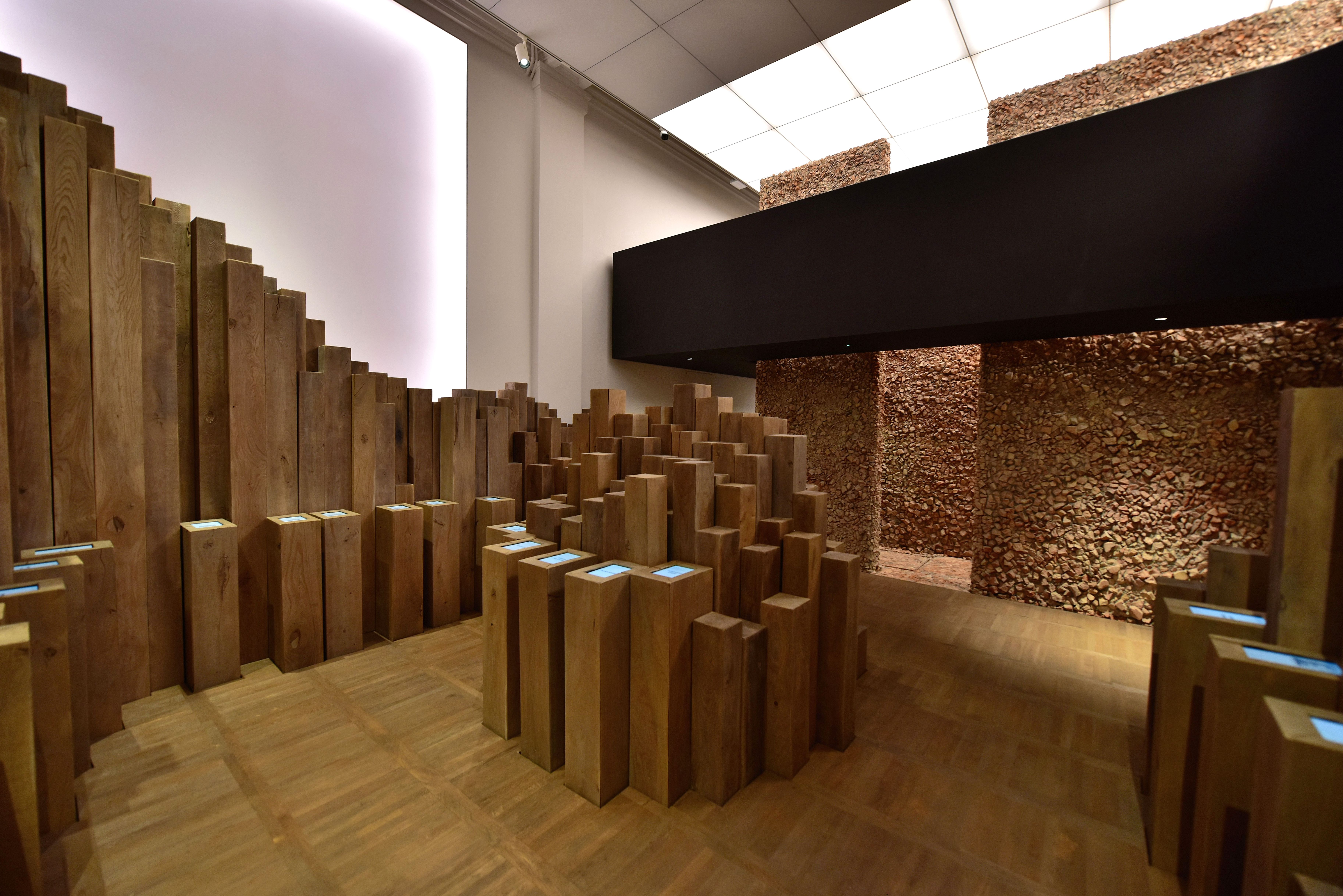 Part of the permanent exhibition What we were unable to shout out to the world at the Emanuel Ringelblum Jewish Historical Institute in Warsaw